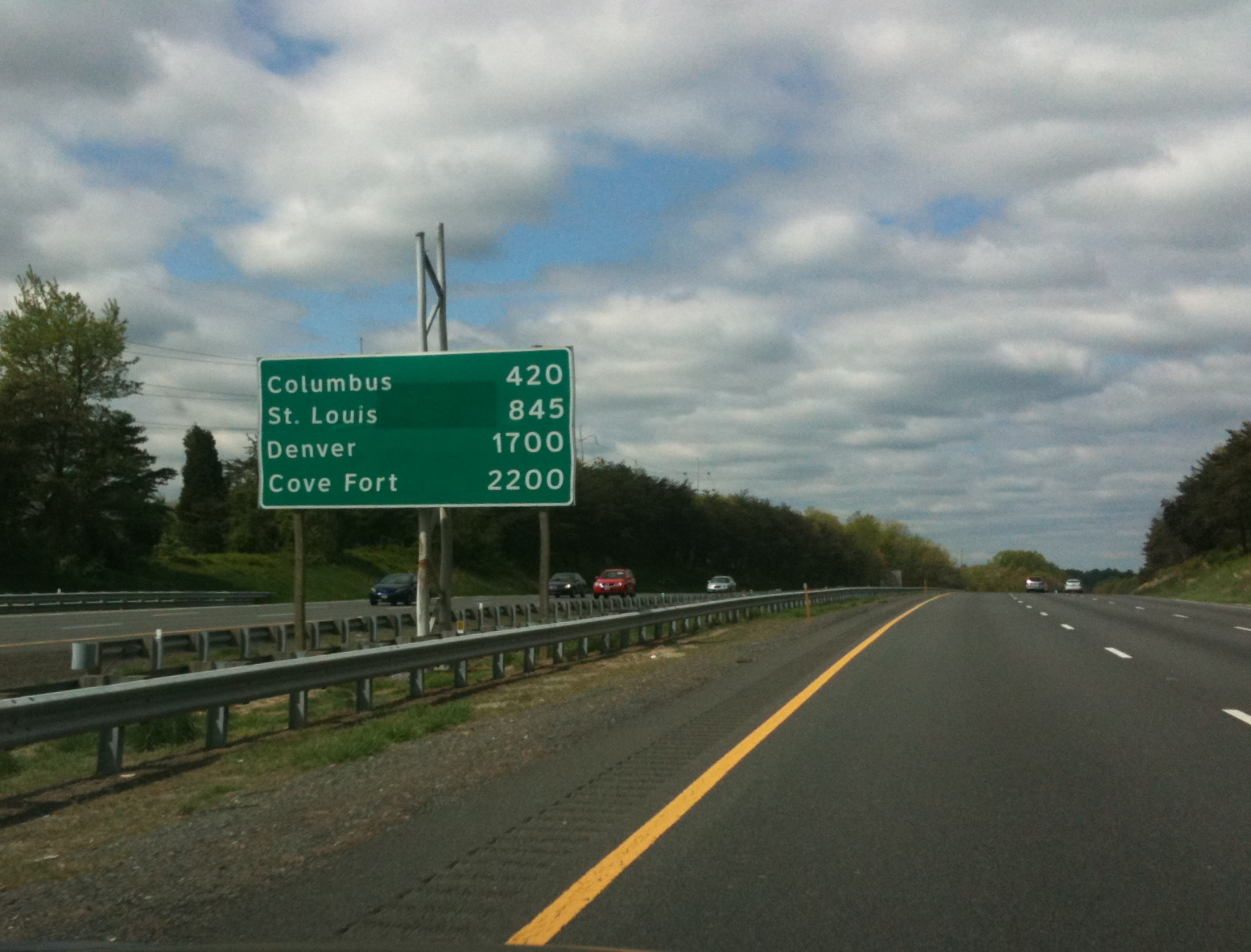 Mileage sign near the eastern terminus of Interstate 70 in Maryland; the sign gives the distance to the western terminus in Cove Fort, Utah, as 2,200 miles.